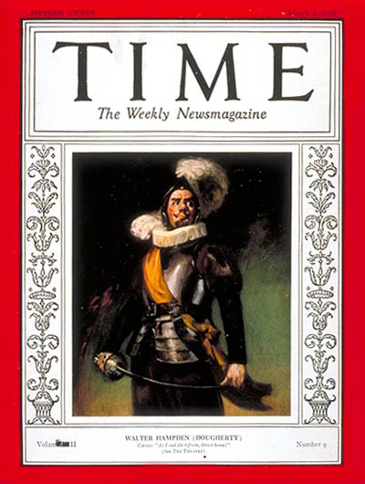 Time magazine cover for March 4, 1929. Front cover is an illustration of actor Walter Hampden as Cyrano de Bergerac, by Truman E. Fassett.